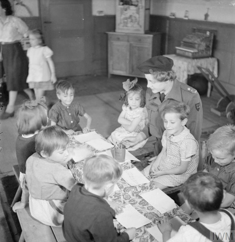 Stella Jane Reekie, a British nurse and child welfare specialist works with orphans.following the liberation of Bergen Belsen. June 1945